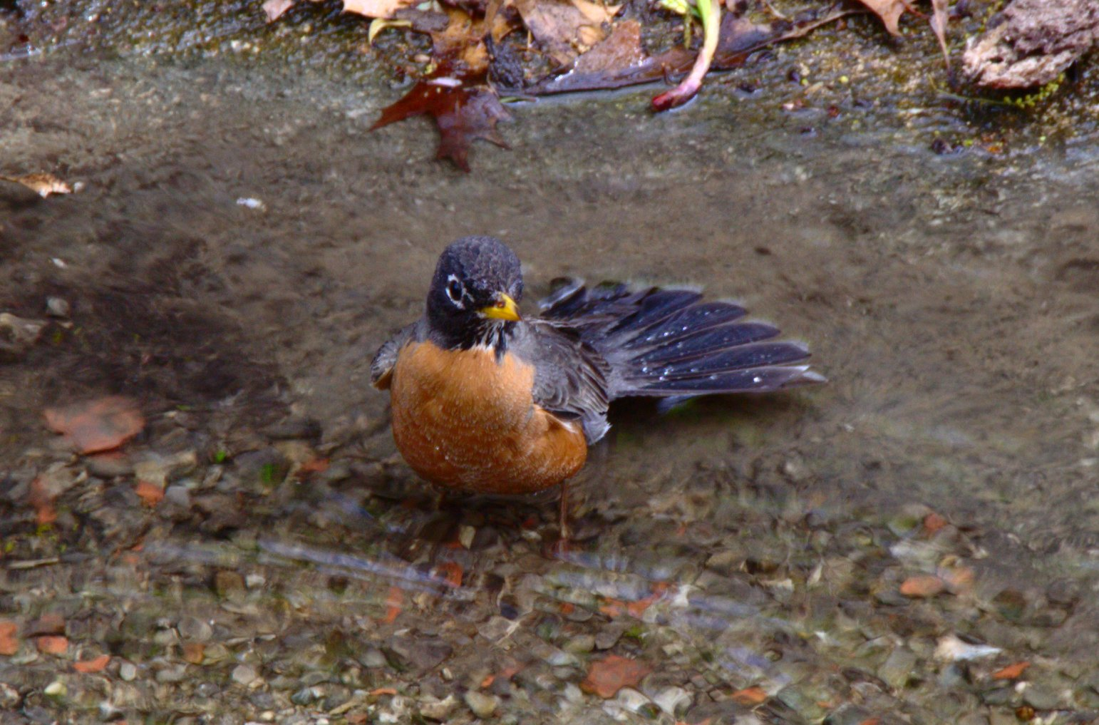 American Robin shaking off water, in a man-made creak in high park, Toronto, Ontario, Canada